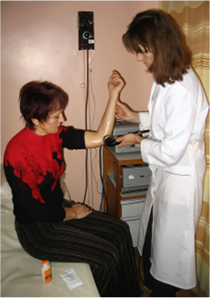 Phonophoresis procedure